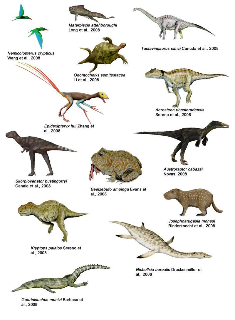 A selection of the most important paleontological discoveries for the year 2008... All digital.